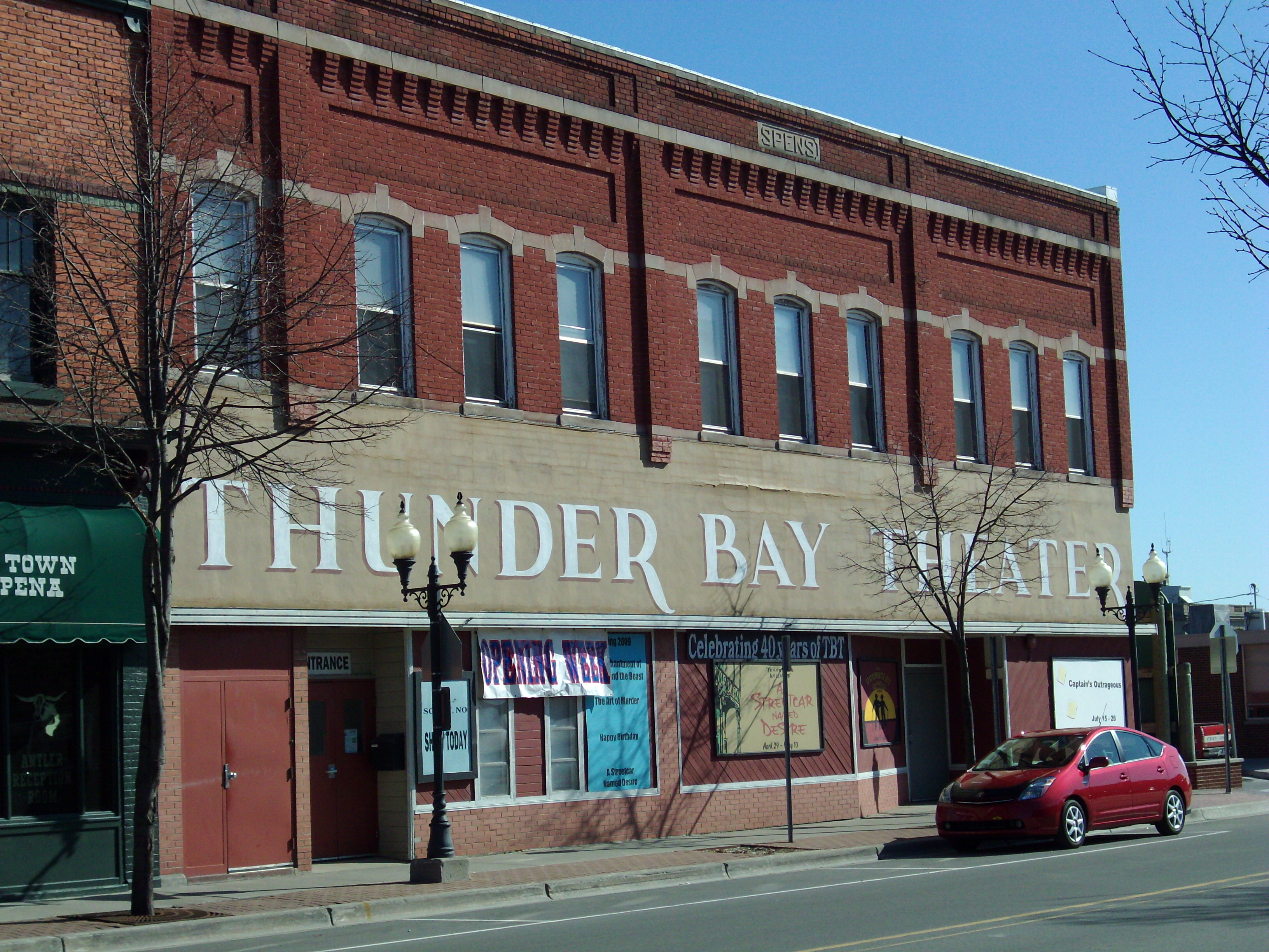 Thunder Bay Theater in Alpena, Michigan, USA